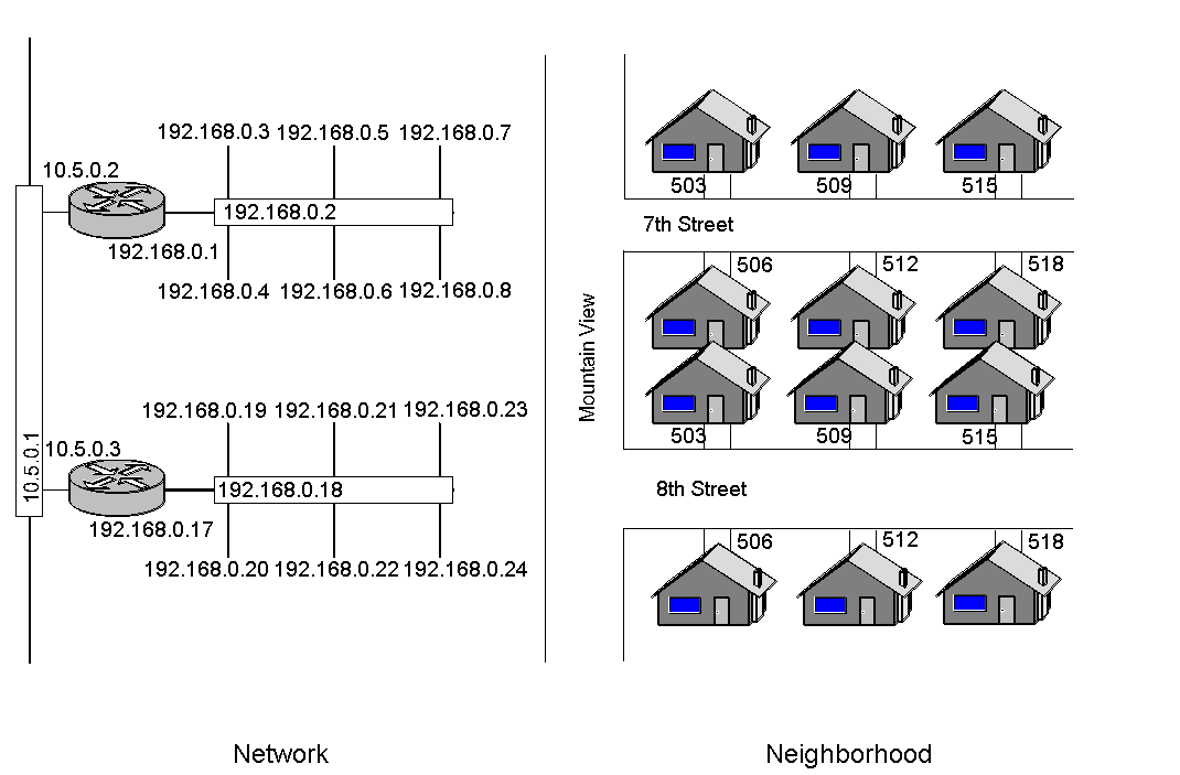 Router analogy Routers are like intersections whereas switches are like streets.